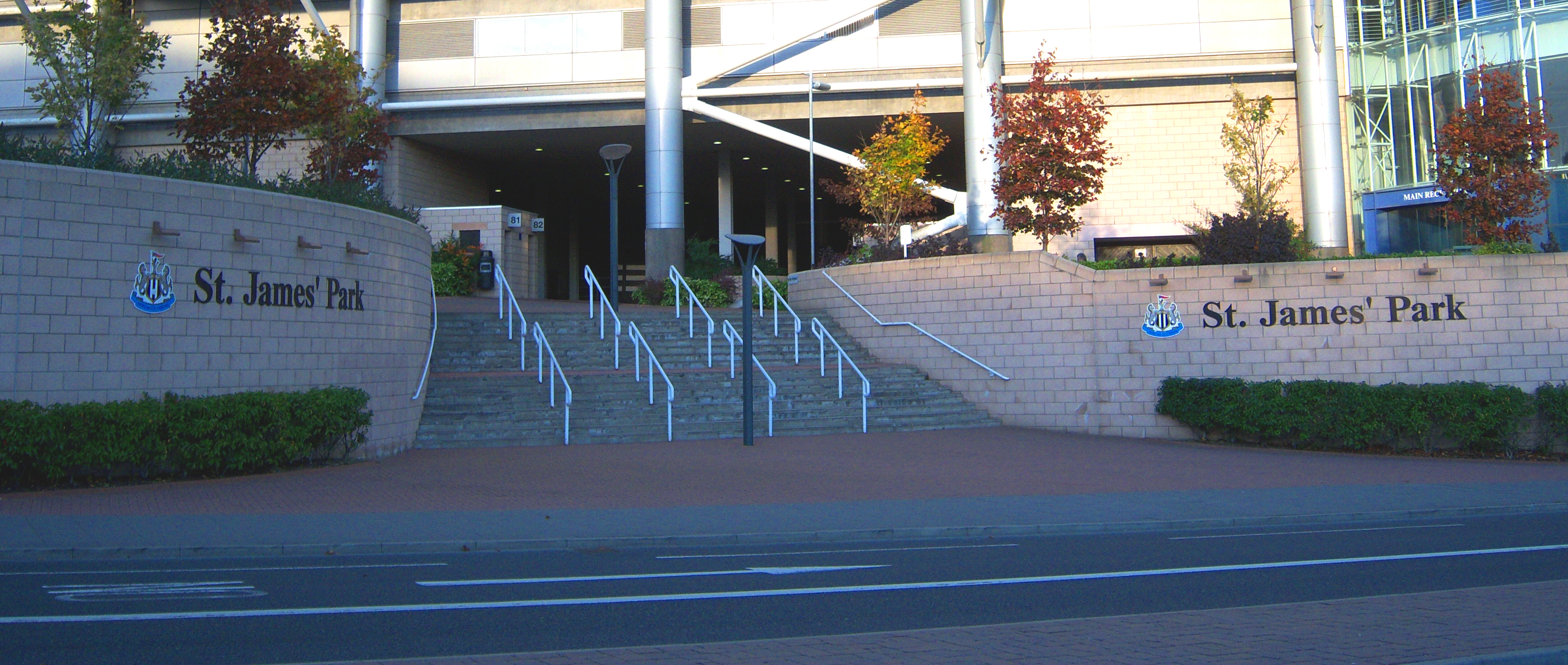 The steps of St. James' Park, Newcastle, home stadium of Newcastle United F.C. The St. James' Park signs were removed on 16 February 2011.